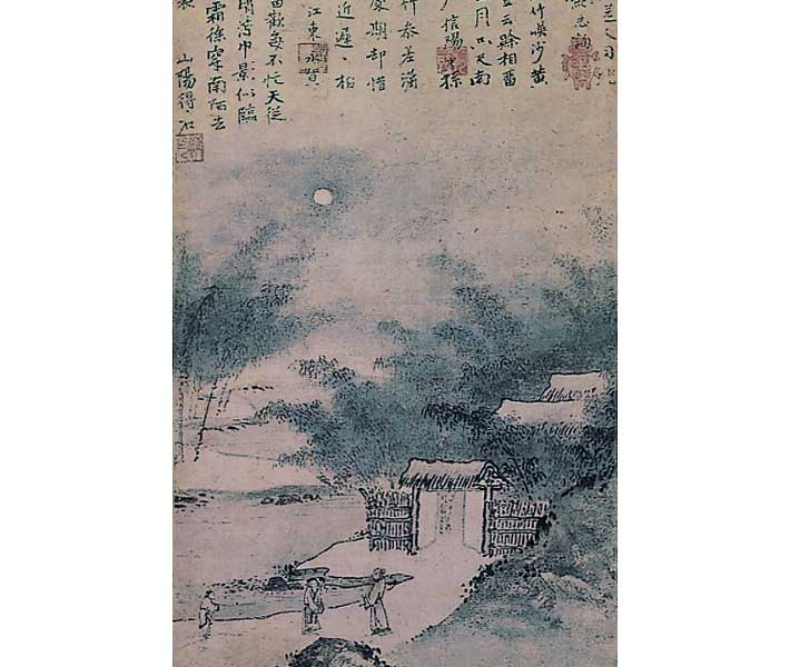 New Moon over the brushwood gate (紙本墨画柴門新月図, shihon bokuga saimon shingetsuzu). Lower part of the hanging scroll, 129.2 cm x 31 cm. Ink on paper. At the top of the scroll there is a collection of poetry and prose by 18 zen priests. Located at the Fujita Art Museum, Osaka, Japan. The scroll has been designated as National Treasure of Japan in the category paintings.